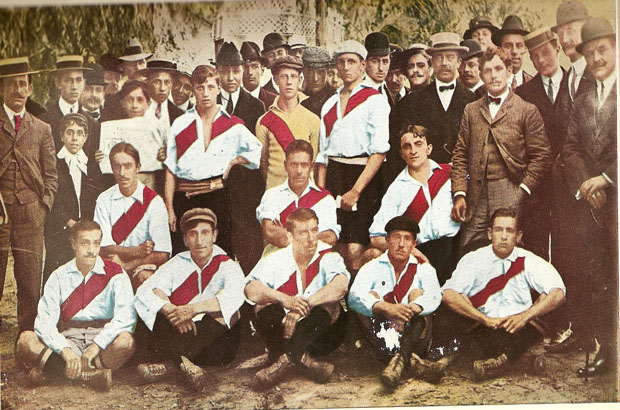 Photo of Argentine Club Atlético River Plate football team that won the second division championship in 1908, promoting to Primera División. Up: Luraschi, Griffero, Priano. Middle: Messina, Morroni, Chagneaud. Down: García, Abaco Gómez, Chiappe, Politano, Elías Fernández.